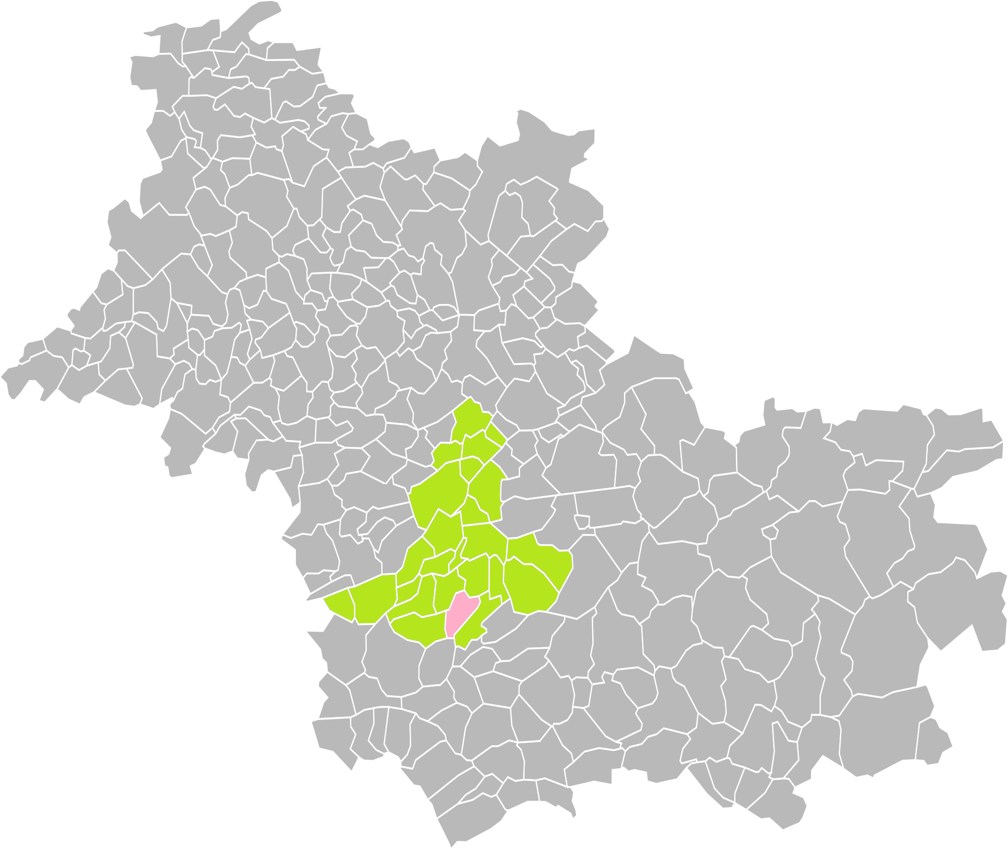 Location of the commune of Fougères-sur-Bièvre in the cantons of Blois (I-II-III) et Vineuil (Loir-et-Cher)